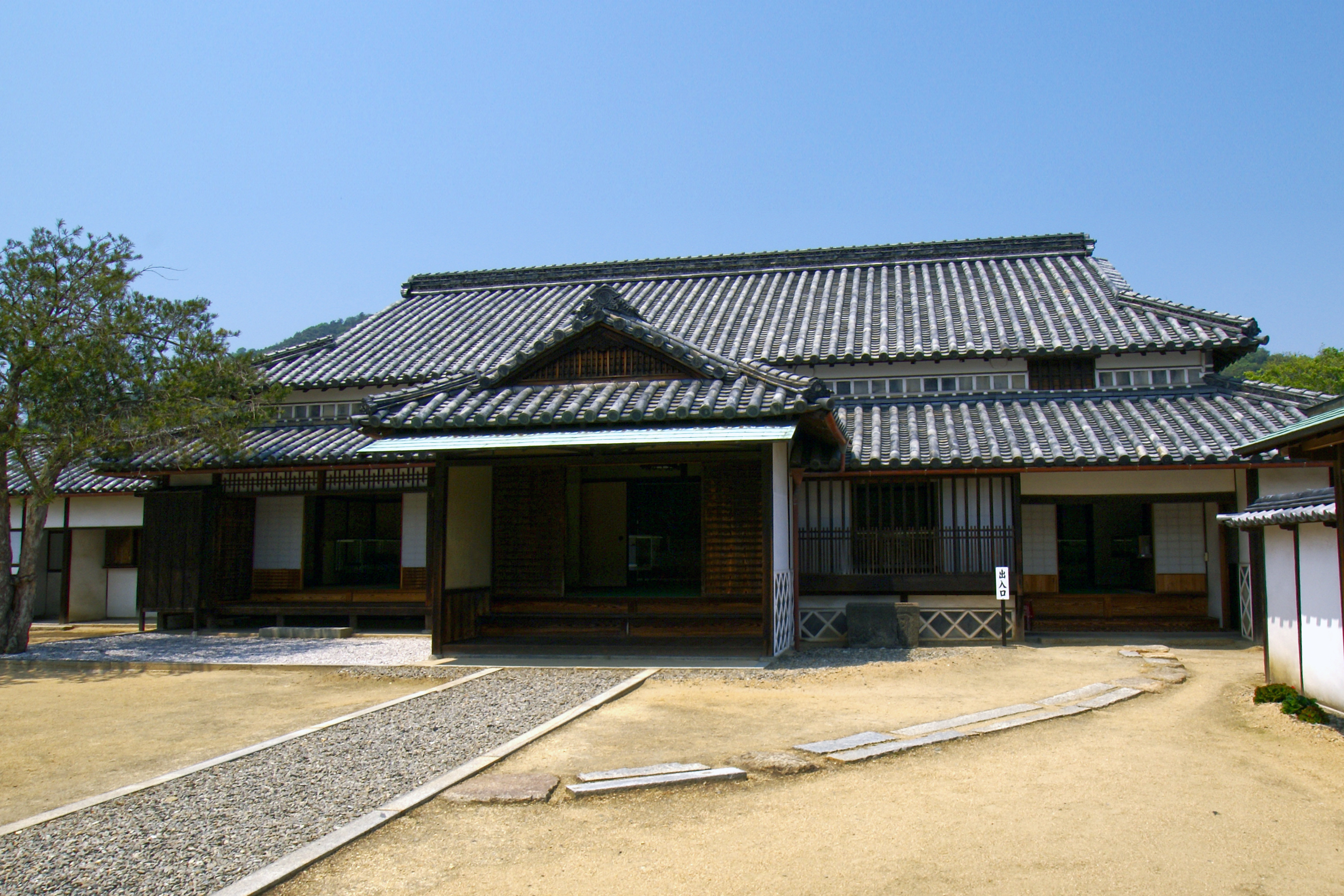 Shiwaku-kinbansho in Hon-jima of Shiwaku Islands, Marugame, Kagawa prefecture, Japan